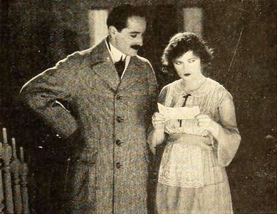 Still from the American film Getting Mary Married (1919) with Norman Kerry and Marion Davies, on page 9 of the June 1919 Film Fun.